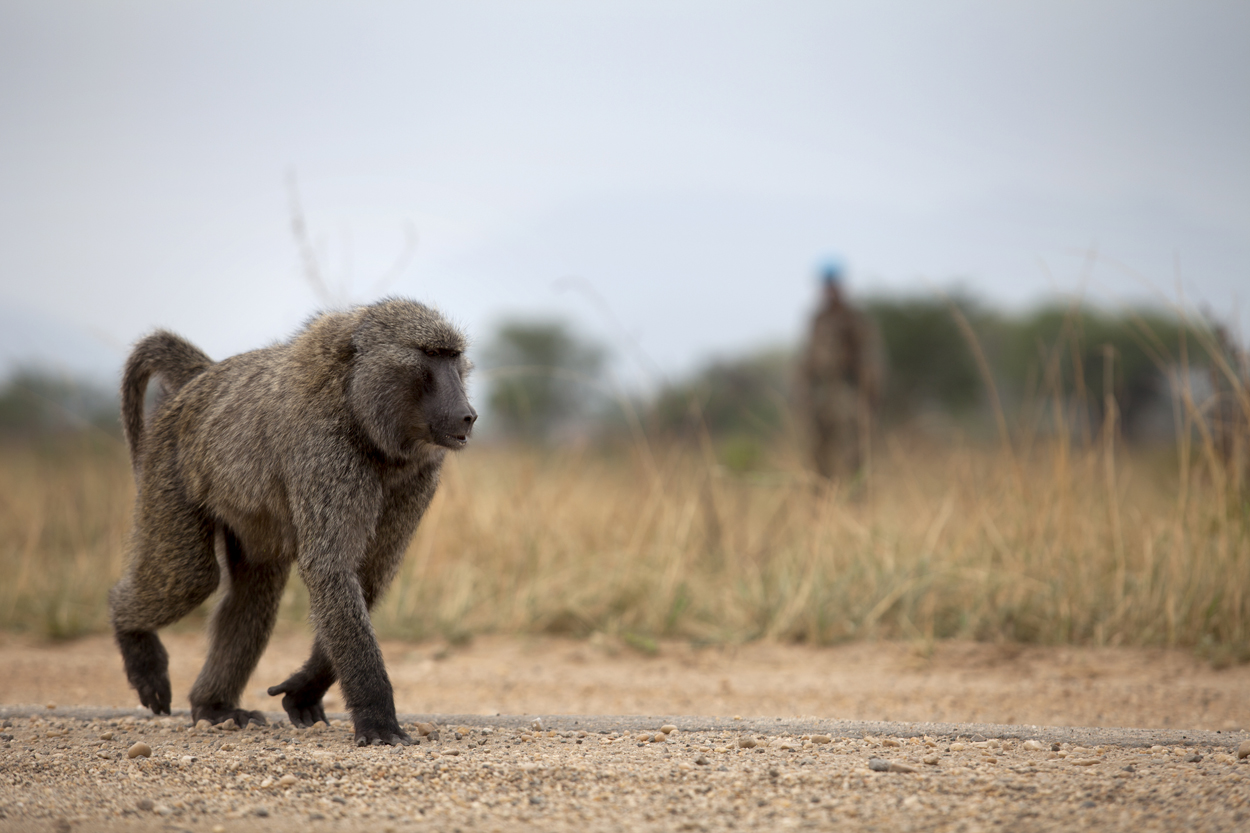 Goma, the 1st March 2012, MONUSCO DSRSG Leila Zerrougui visit to North Kivu sensitive spots. © MONUSCO/Sylvain Liechti